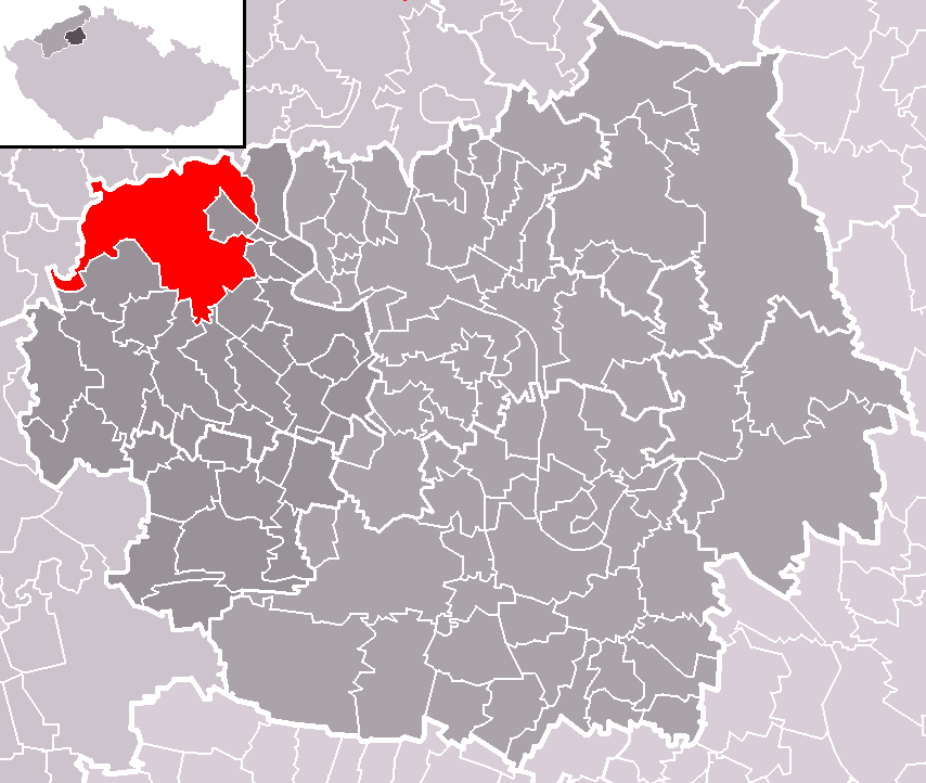 Location of Velemín municipality within Litoměřice District and administrative area of Lovosice as a Municipality with Extended Competence.